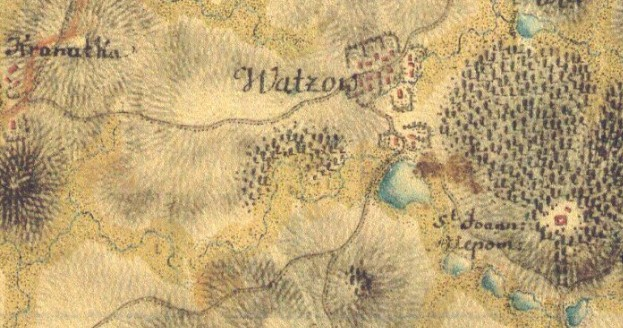 Ist Military Survey